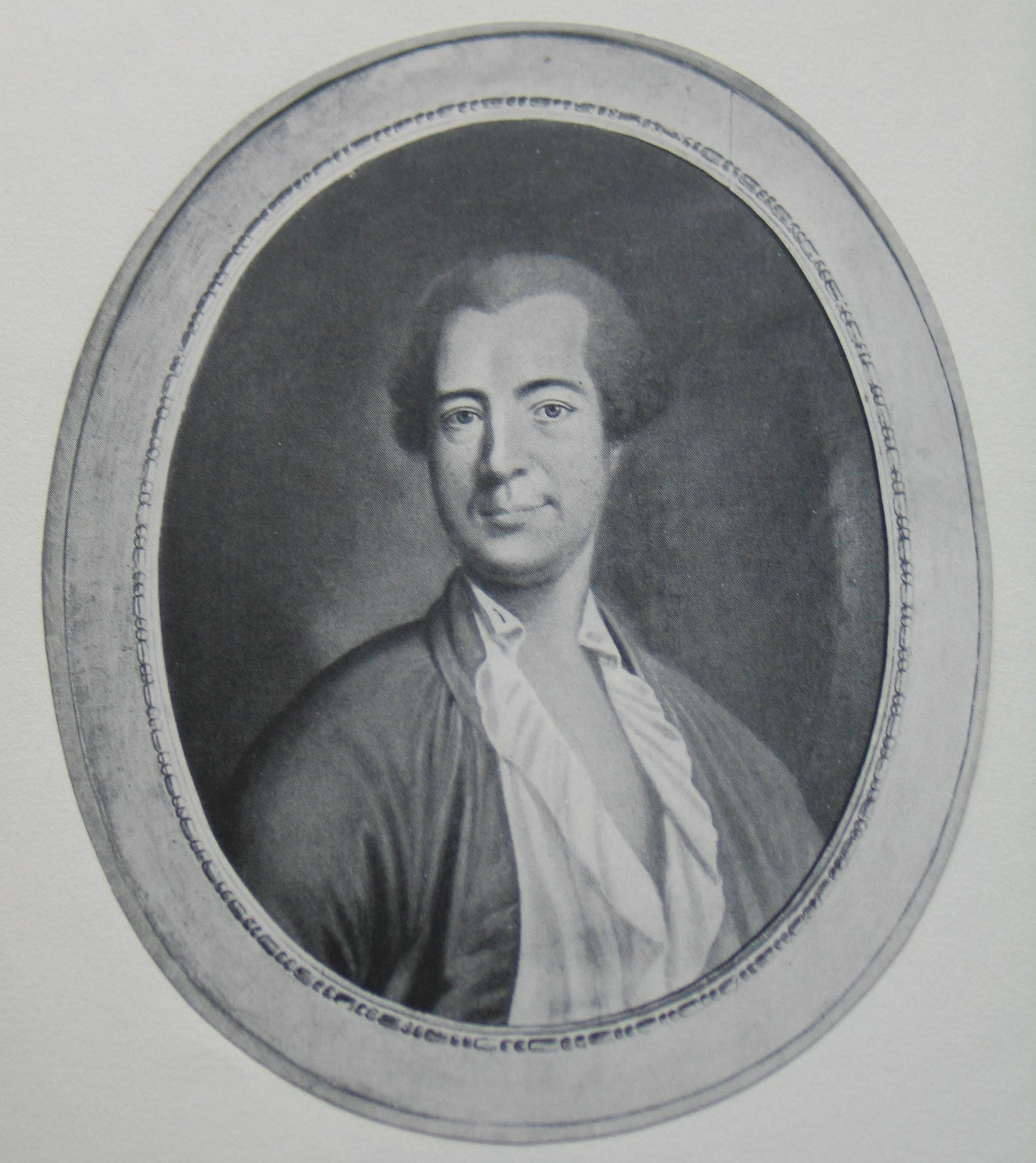 Pierre Alexandre DuPeyrou, a plantation owner in Surinam, friend and publisher of Rousseau